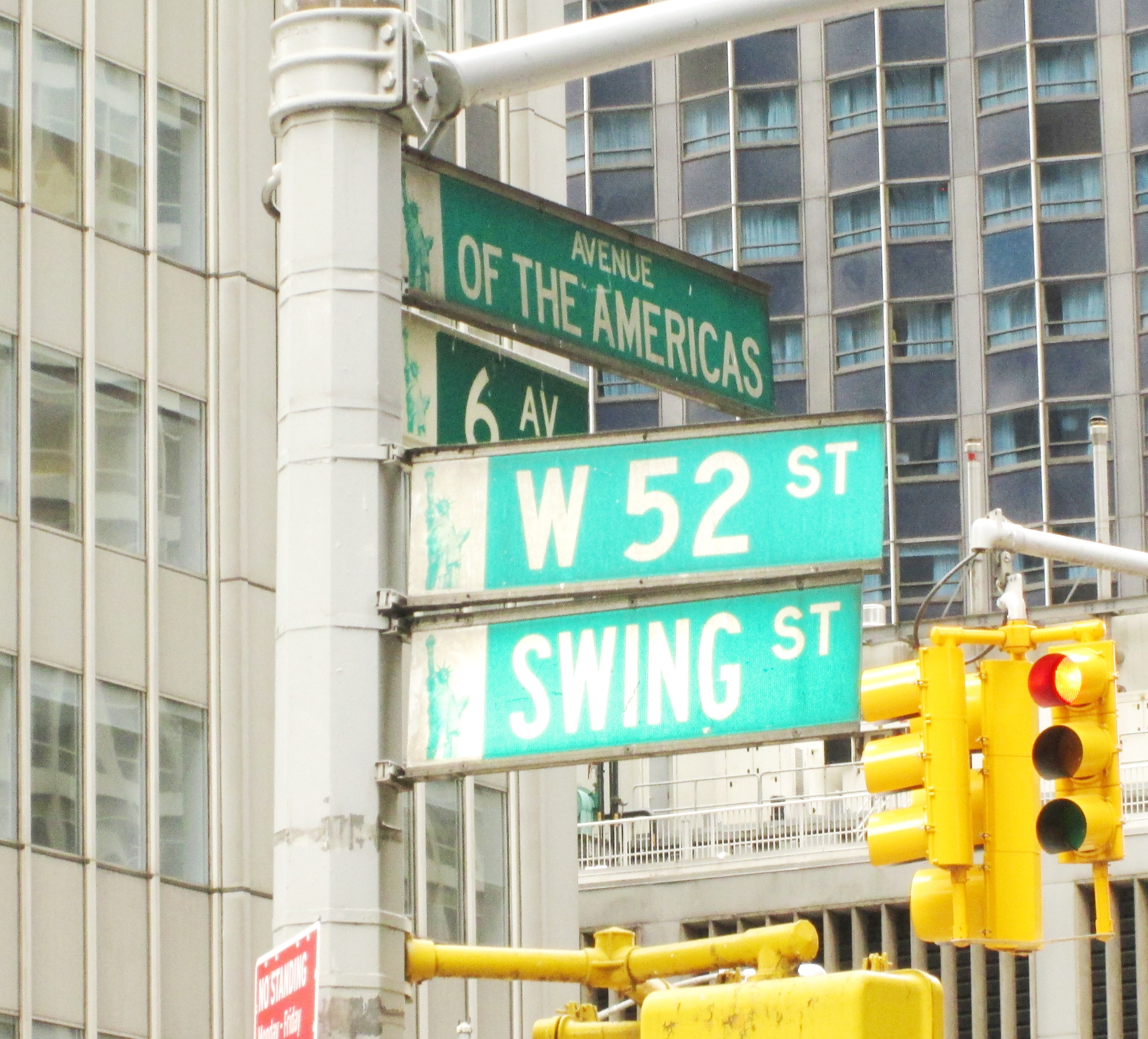 A "Swing Street" street sign at the corner of 6th Avenue and West 52nd Street in Manhattan